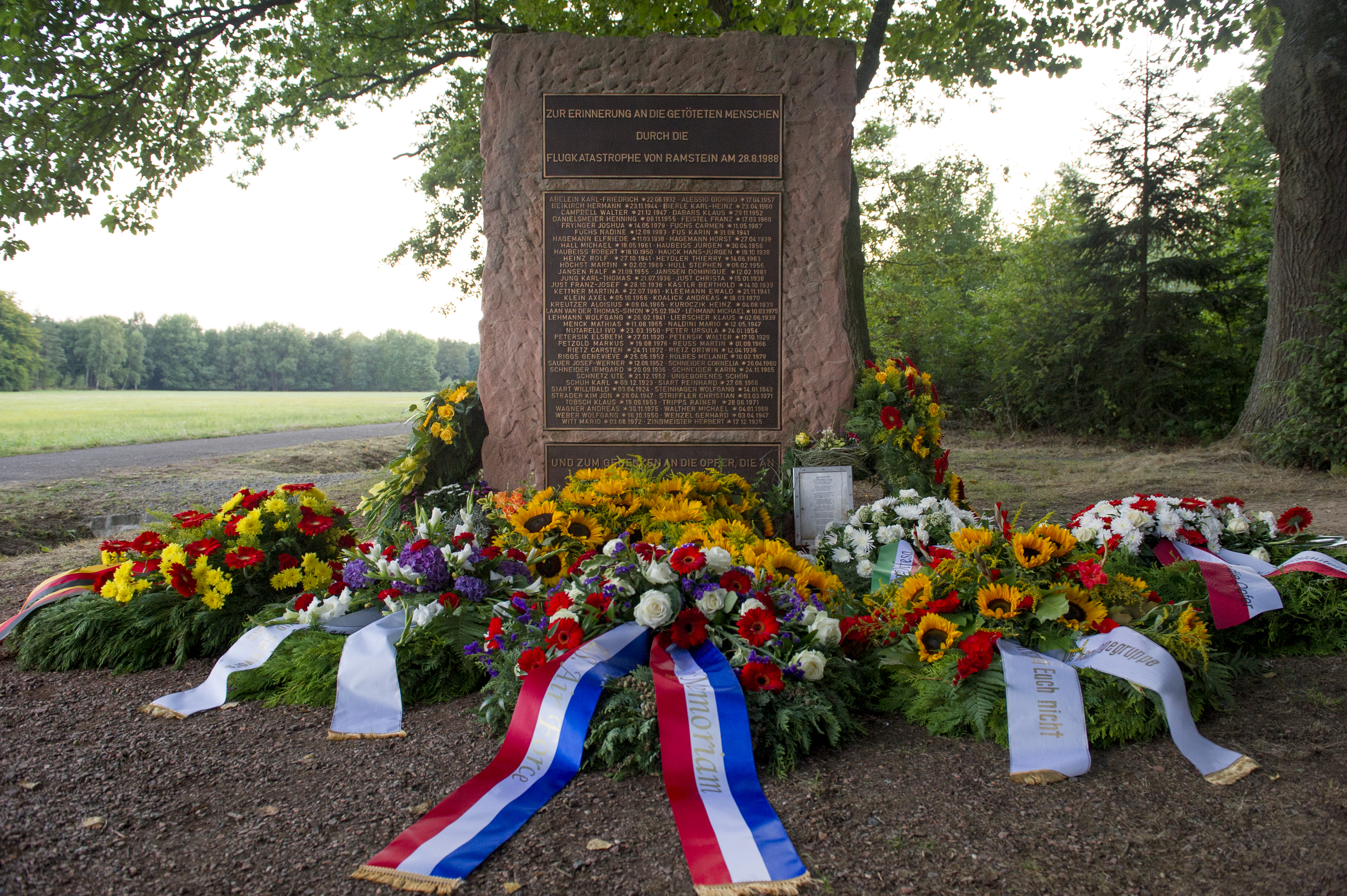 RAMSTEIN, Germany -- Wreaths lay at the memorial site of the 1988 Ramstein air show disaster, Aug. 28, 2013. People gathered on the 25th anniversary of the disaster to remember the 70 people who died when an Italian aerial demonstration team crashed during the show.